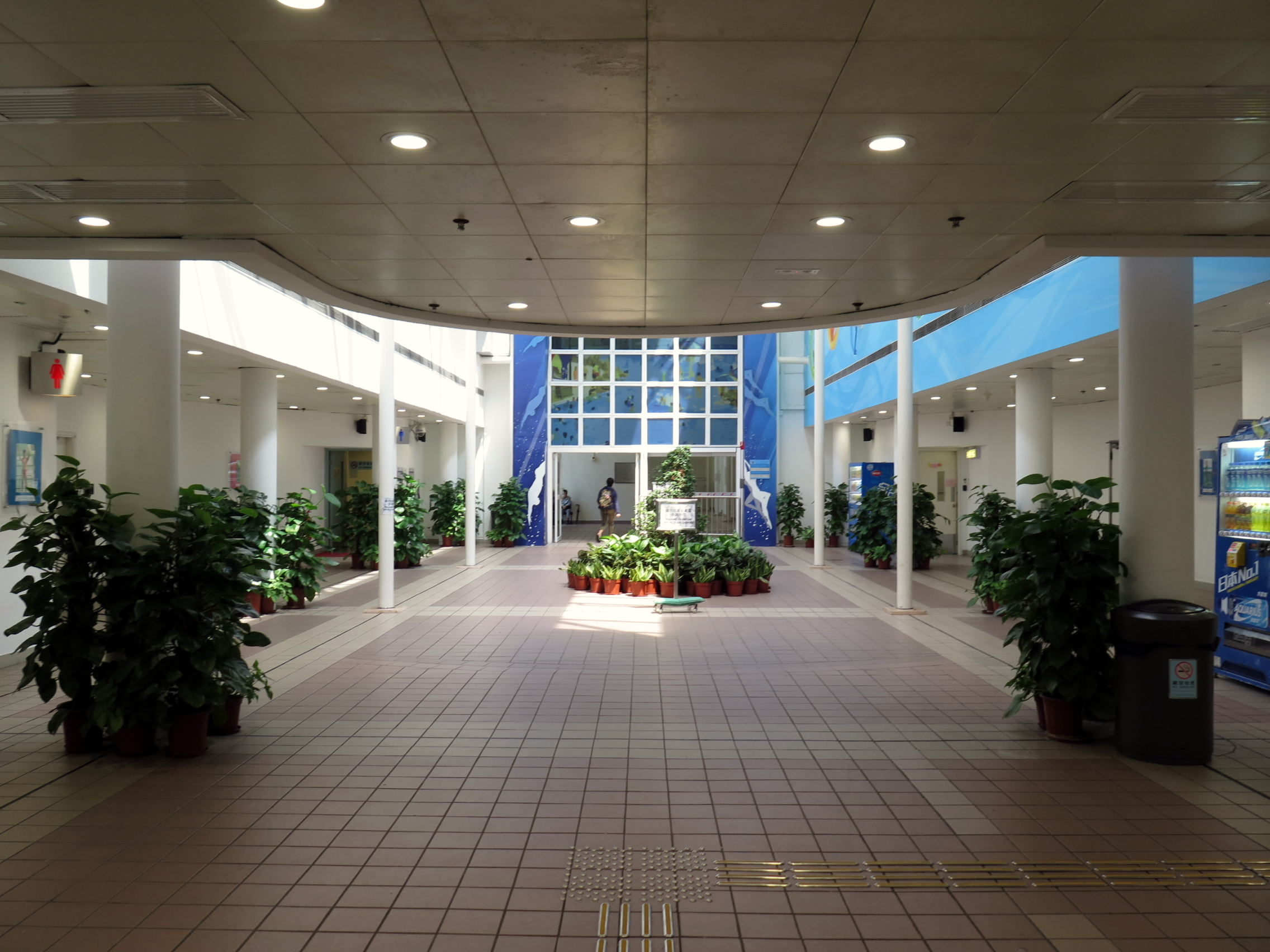 Kowloon Park Swinning Pool Entrance Lobby